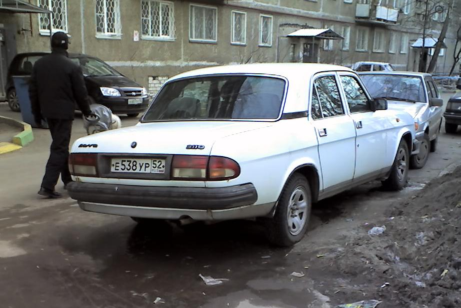 Volga GAZ-3110. Early series with thin bumpers.